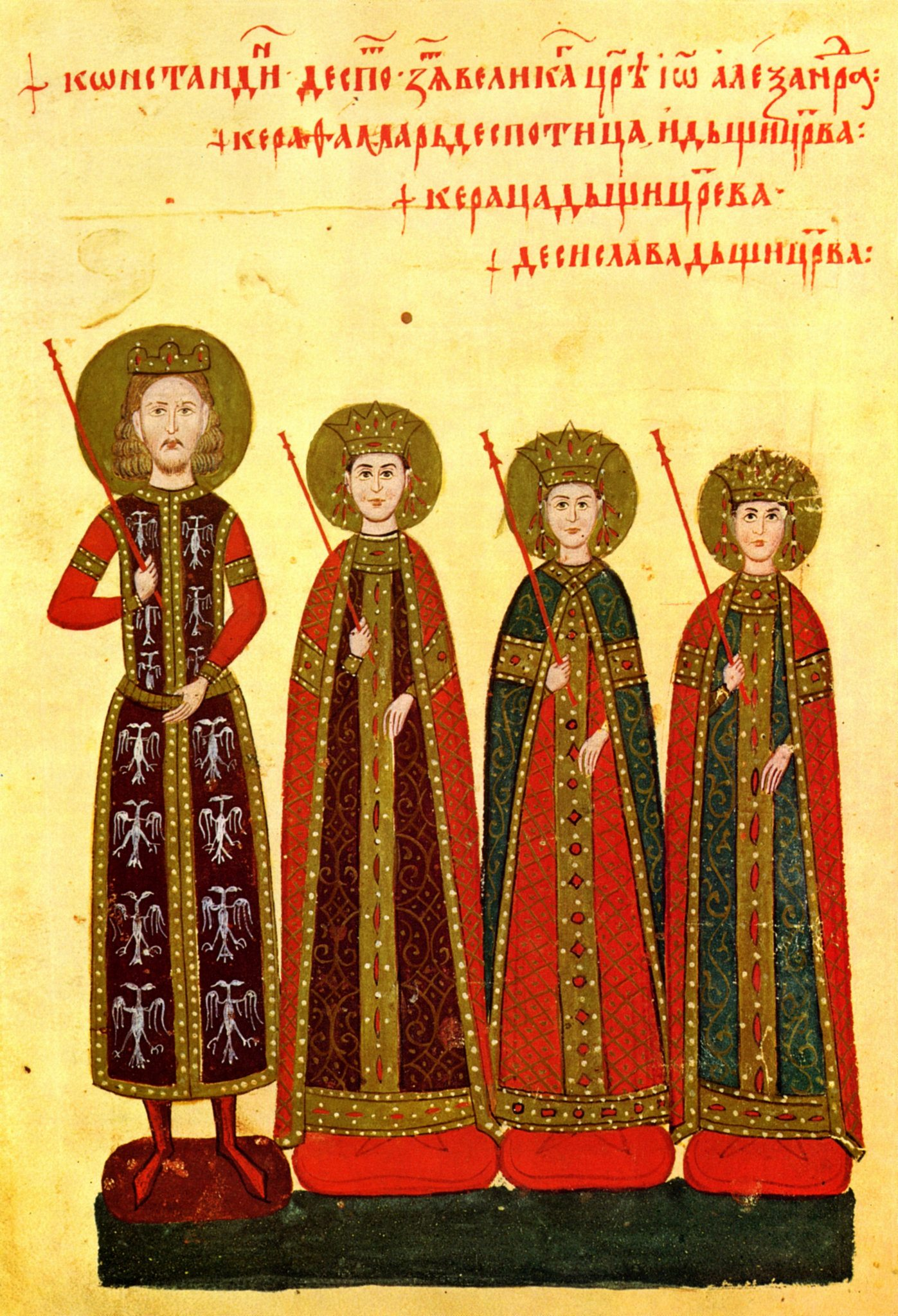 A page from Ivan Alexander's Gospels (London copy). Lord Konstantin Dejanović, Kera-Tamara, Kerica, Desislava.